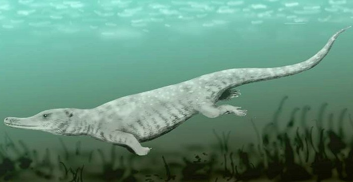 Remingtonocetus harudiniensis, an archaeocete whale from the Middle Eocene of India, pencil drawing, digital coloring